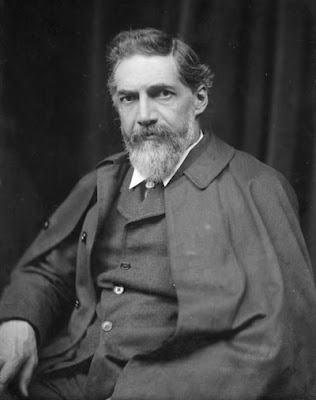 Portrait of Sir William Matthew Flinders Petrie, 1903.